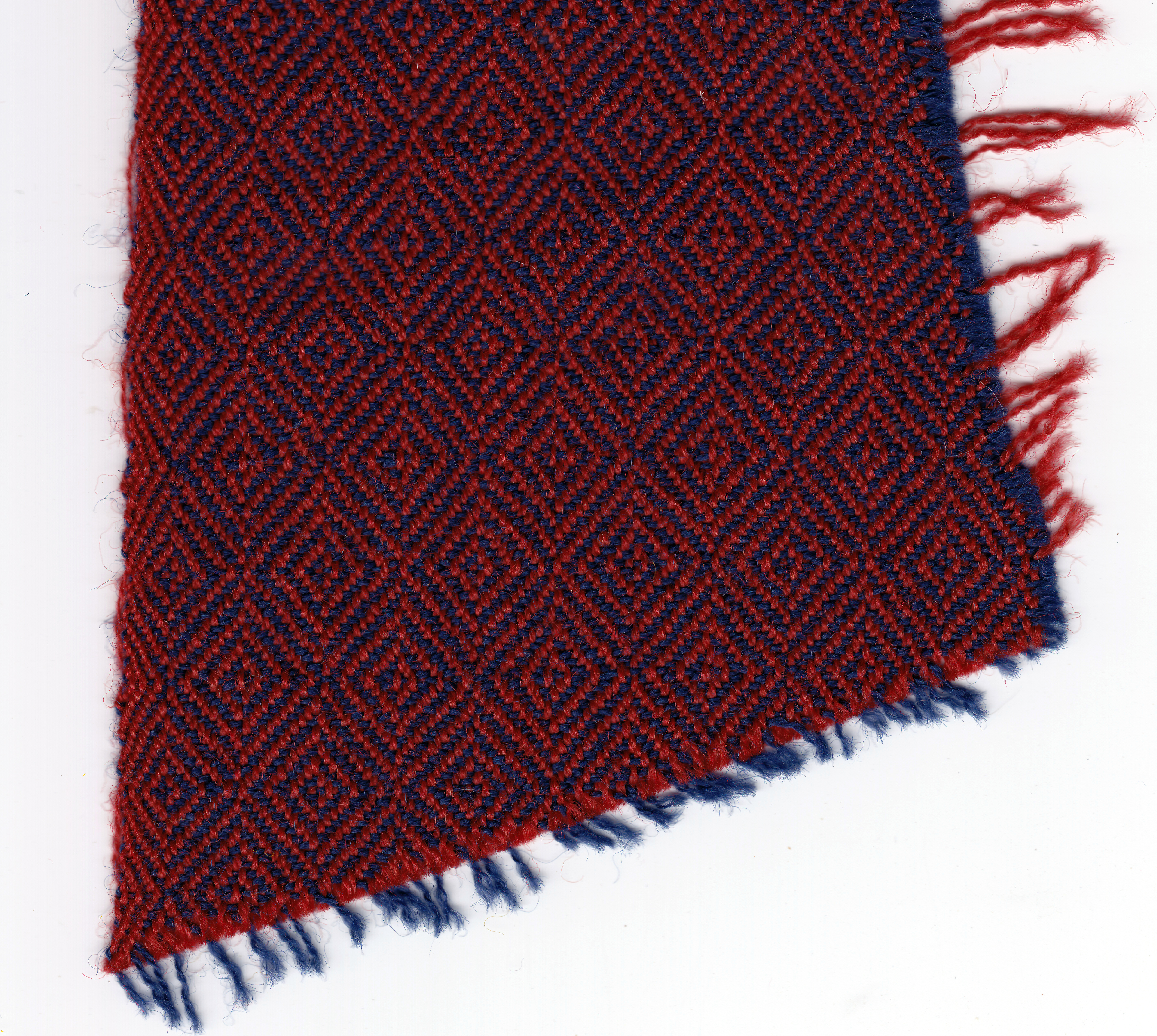 Woolen broken diamond twill with weaving edge and two diagonal cuttings. Blue weft, red warp.